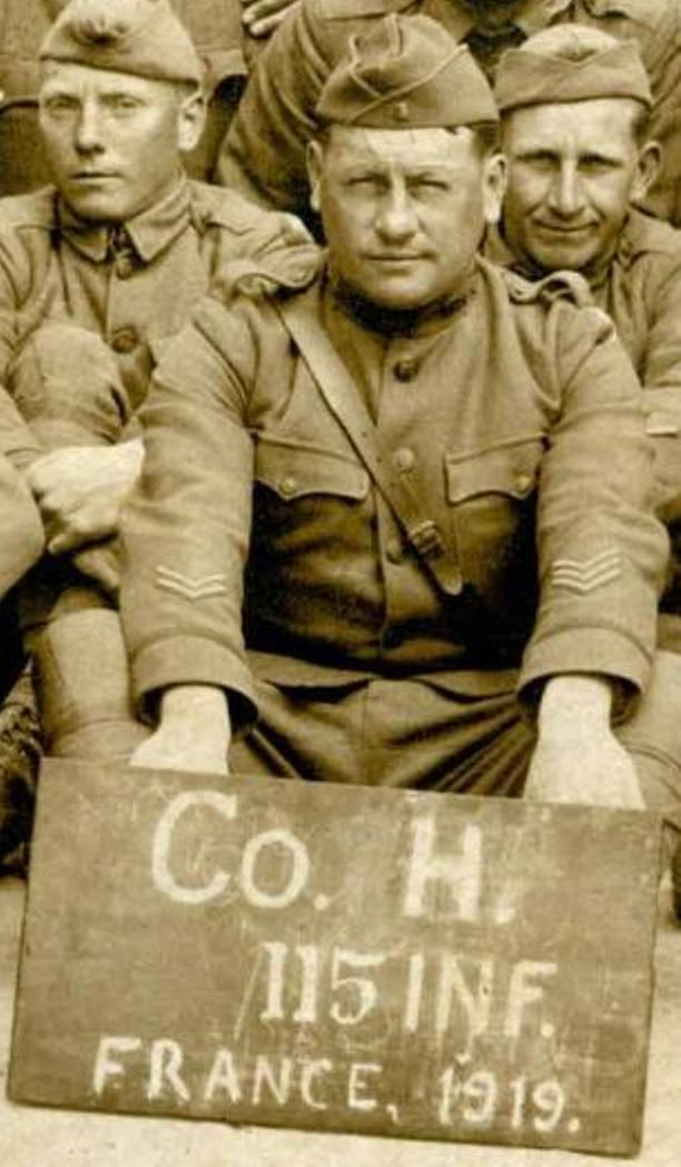 WWI Medal of Honor recipient Second Lieutenant Patrick J. Reagan holding a sign identifying his unit as it posed for a unit photograph in France after the war. Note, too, the two wound chevrons on Reagan's lower right sleeve.